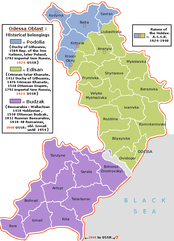 Historical belongings of the actual Odessa Oblast